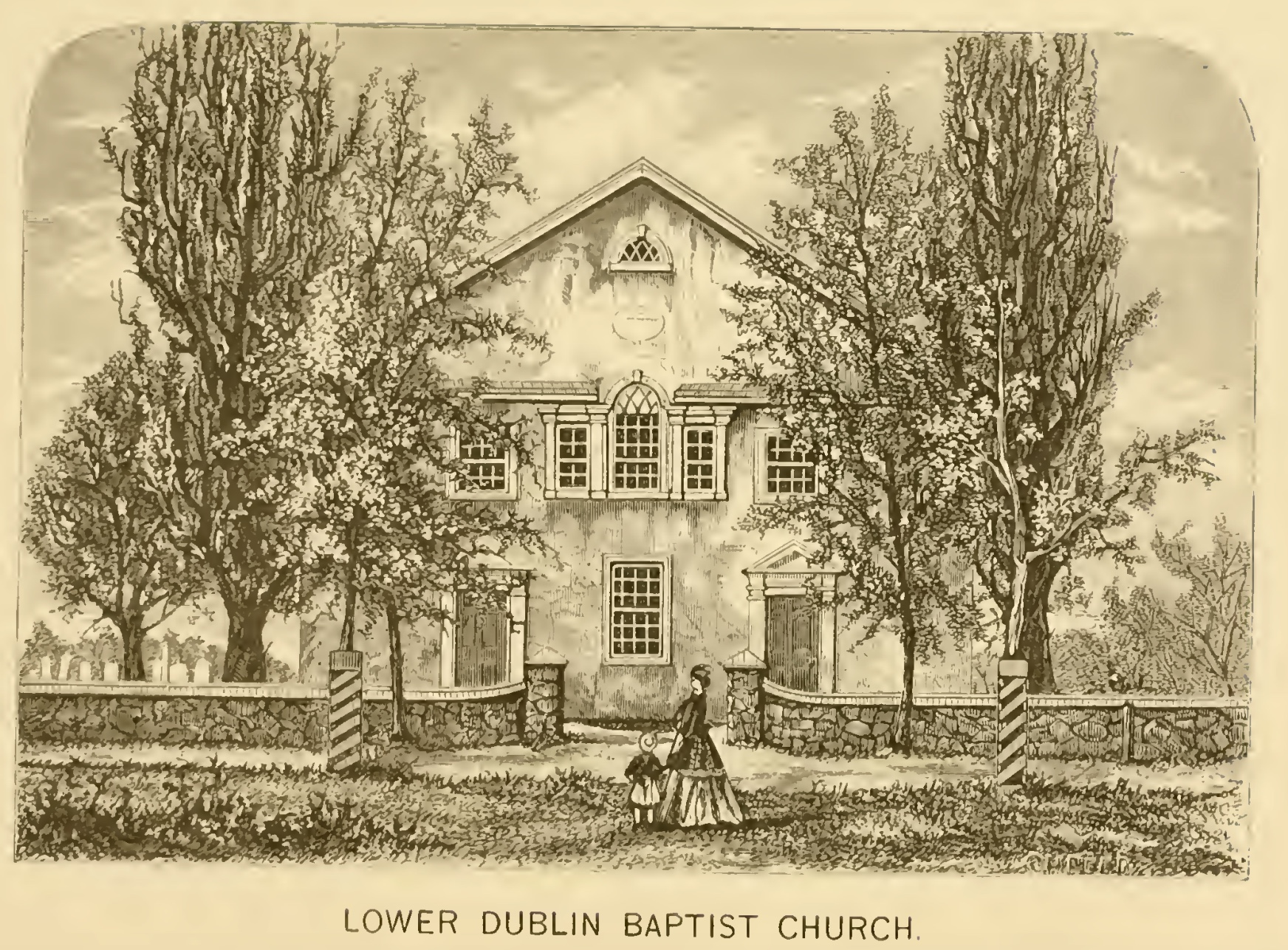 Metadata from Historical sketch of the Lower Dublin (or Pennepek) Baptist Church, Philadelphia, Pa. : with notices of the pastors, &c. by Jones, Horatio Gates, 1822-1893 Publication date 1869 Topics Lower Dublin Baptist Church (Philadelphia, Pa.), Baptists, Baptists Publisher Morrisania, N.Y. : [s.n.] Collection library_of_congress; americana Digitizing sponsor Sloan Foundation Contributor The Library of Congress Language English "The edition of this work numbered only one hundred and fifty copies.--H.G.J."--T.p. verso The Lower Dublin Baptist Church is the oldest Baptist church in Pennsylvania Sketch of the church -- Biographical sketches of the pastors -- Licentiates -- Ruling elders -- Deacons -- Additions to the church by baptism and total membership in each year Includes bibliographical references Call number 5915484 Camera Canon 5D Identifier historicalsketch00jone Identifier-ark ark:/13960/t33206x6q Identifier-bib 0014314320a Openlibrary_edition OL6643051M Openlibrary_work OL6602607W Pages 78 Possible copyright status NOT_IN_COPYRIGHT Ppi 400 Scandate 20081120194426 Scanfactors 5 Scanner Scanningcenter capitolhill Full catalog record MARCXML